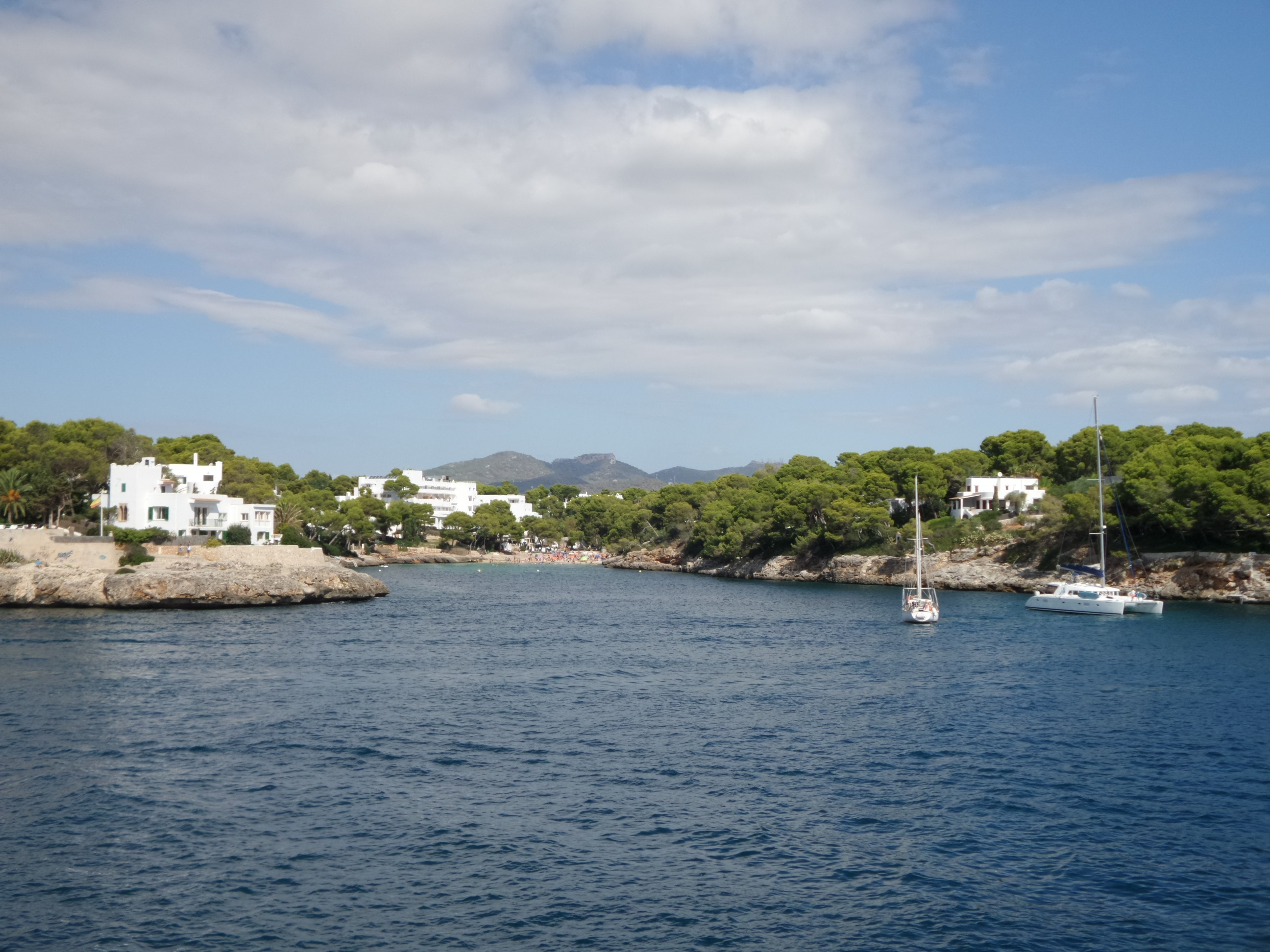 Cala d'Or (Bay, Beach)